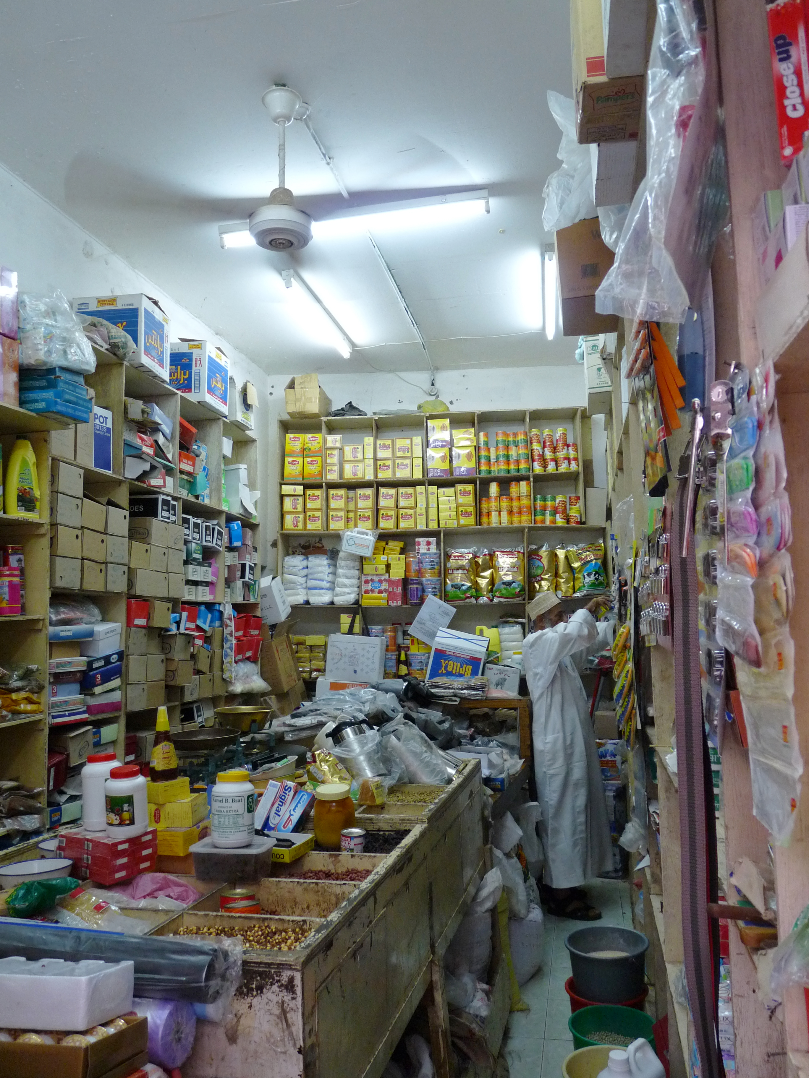 Nizwa (Oman) : grocery